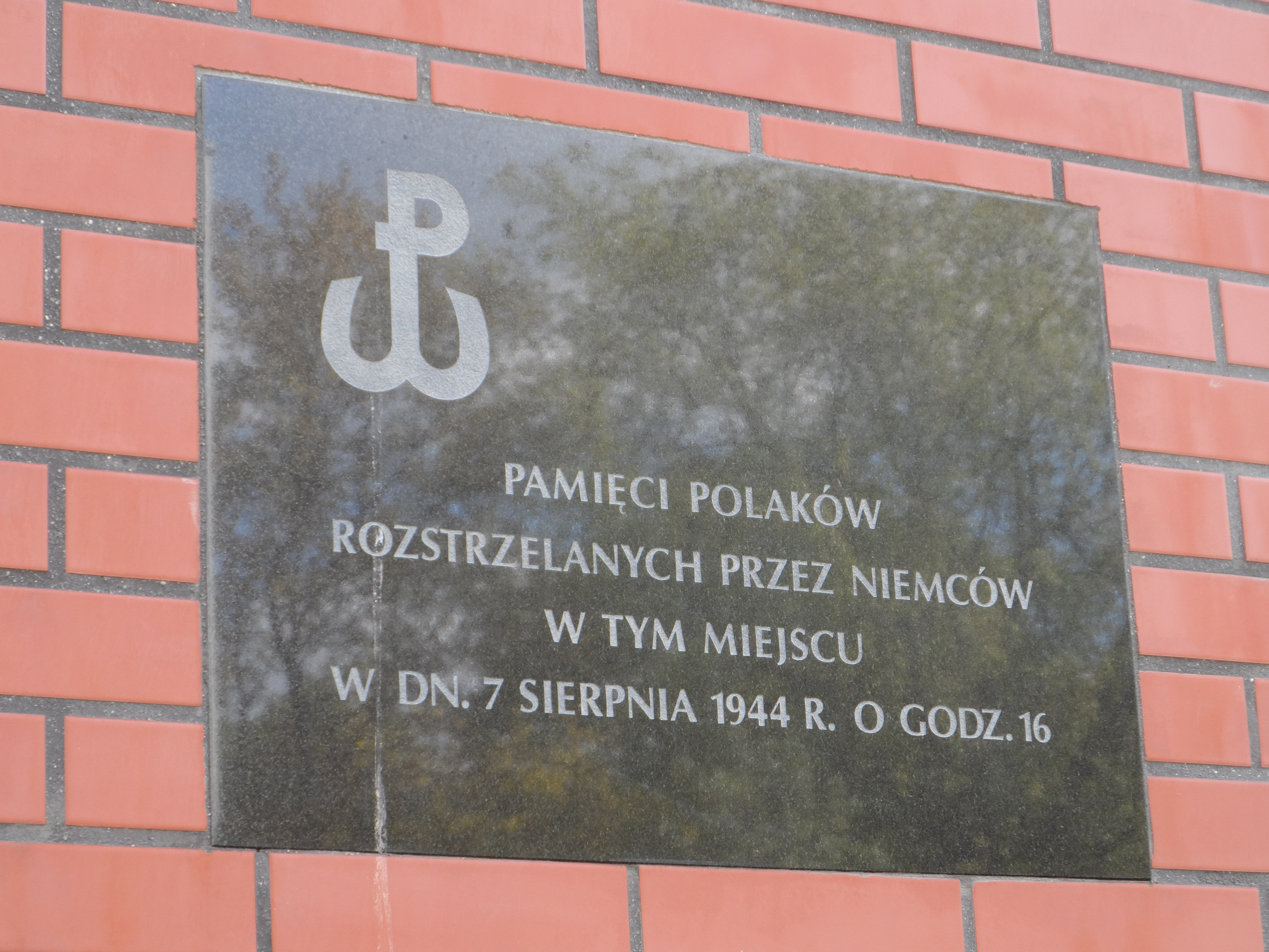 Plaque at Ludwika Rydygiera Street in Warsaw. It commemorates Polish civilians murdered in this place by German troops during the Warsaw Uprising (7th August 1944).